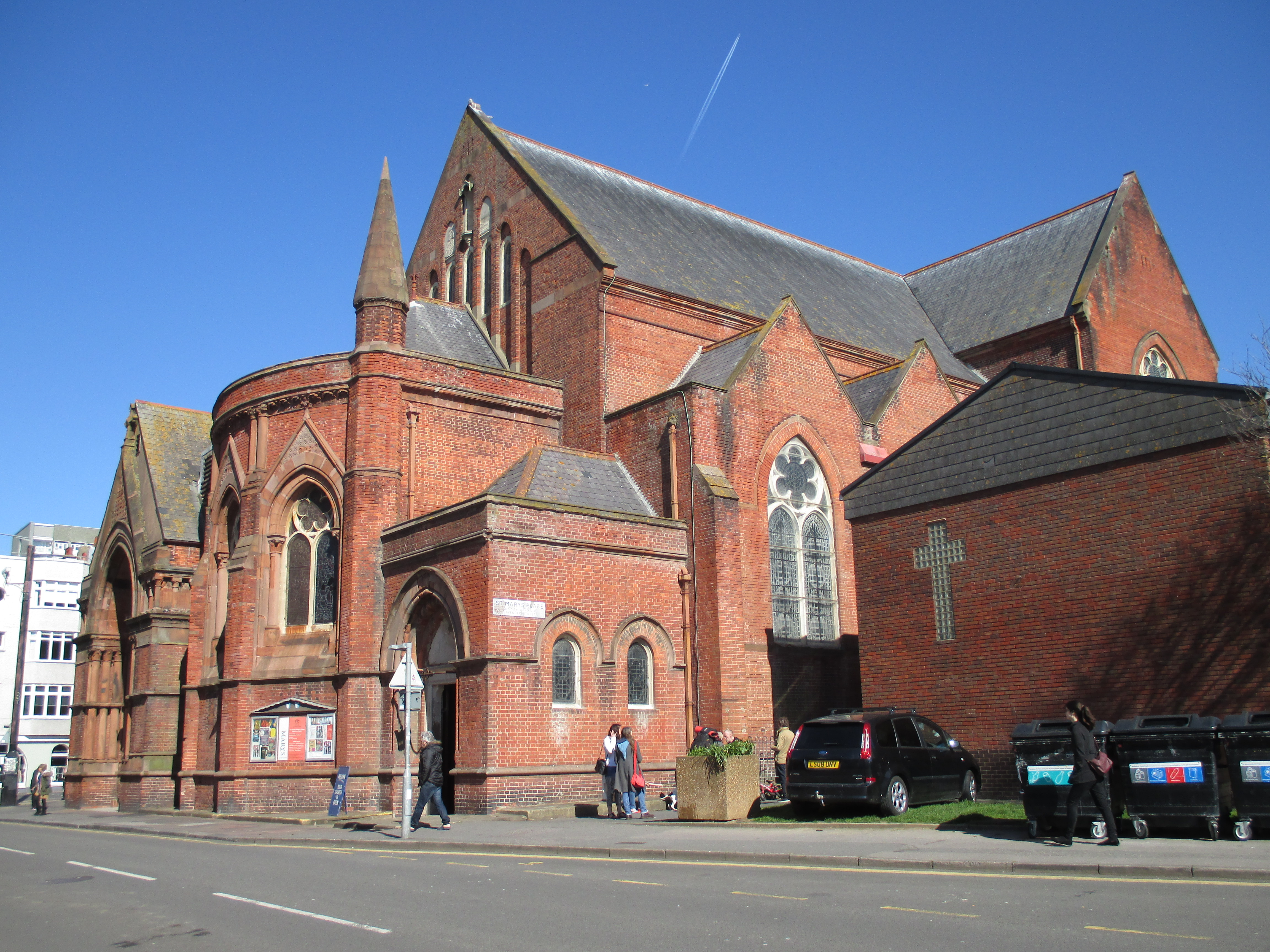 St. Mary the Virgin's Church, Kemptown, Brighton, seen from the south-east.